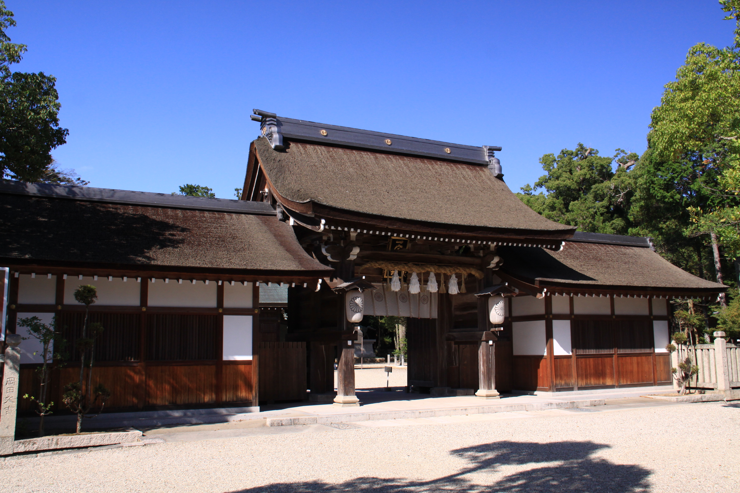 Izanagi-jingu Shinmon